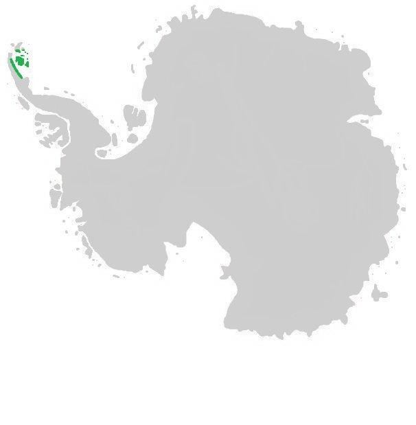 Distribution map the Antarctopelta